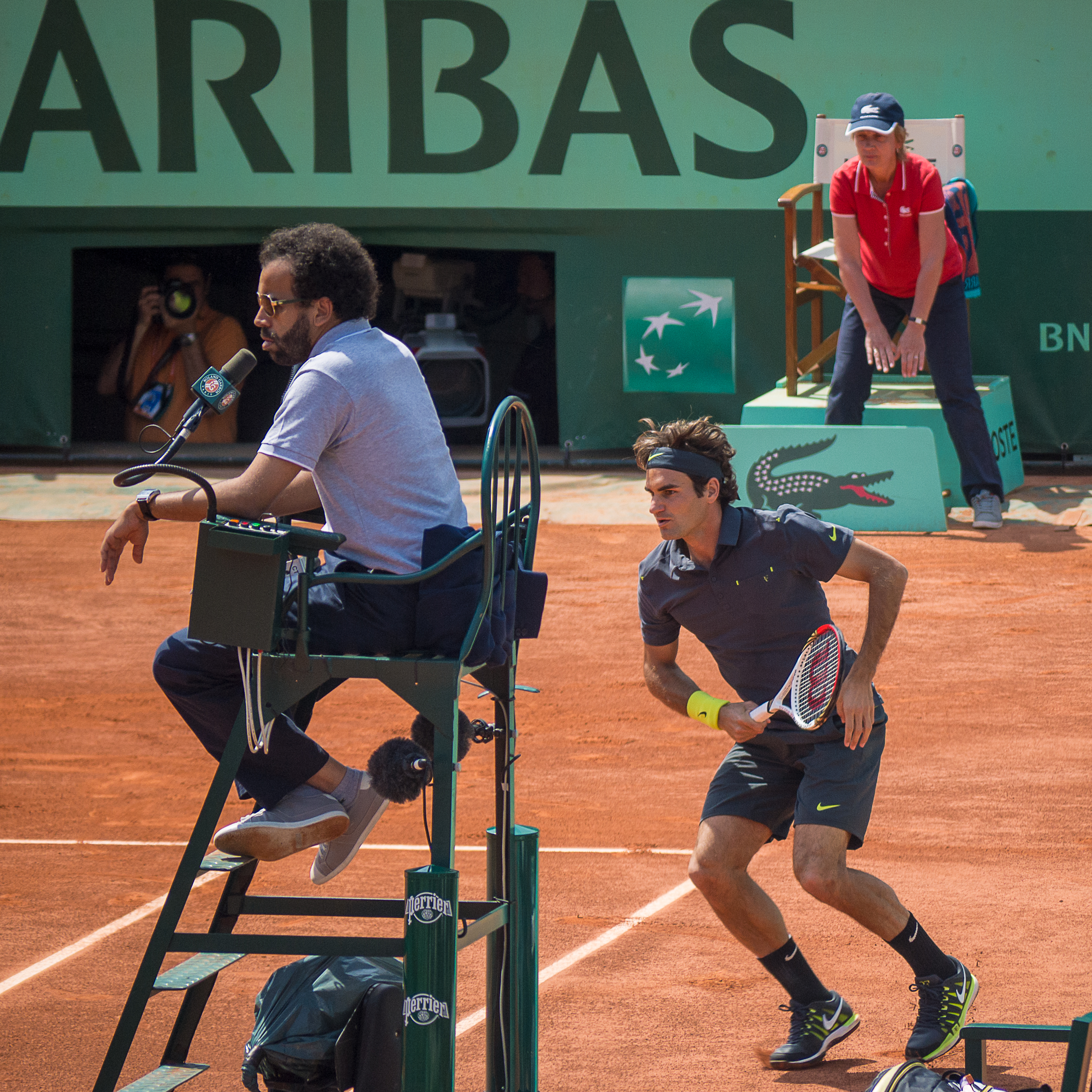 2ème tour Roland Garros 2012 : Roger Federer (SUI) def. Adrian Ungur (ROU)